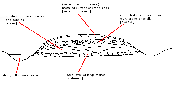 This is a cross-sectional diagram of an idealized Ancient Roman road as found in Britain. I have updated it based on a closer inspection of Weston (1919), Smith (2011) and other sources.